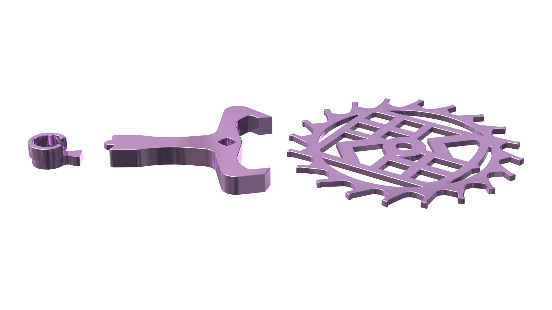 Featured in the Frederique Constant Heart Beat FC-945 Silicium Calibre, this silicium escapement uses less power and maintains amplitude more efficiently than a standard lever escapement, because it functions without lubrication.